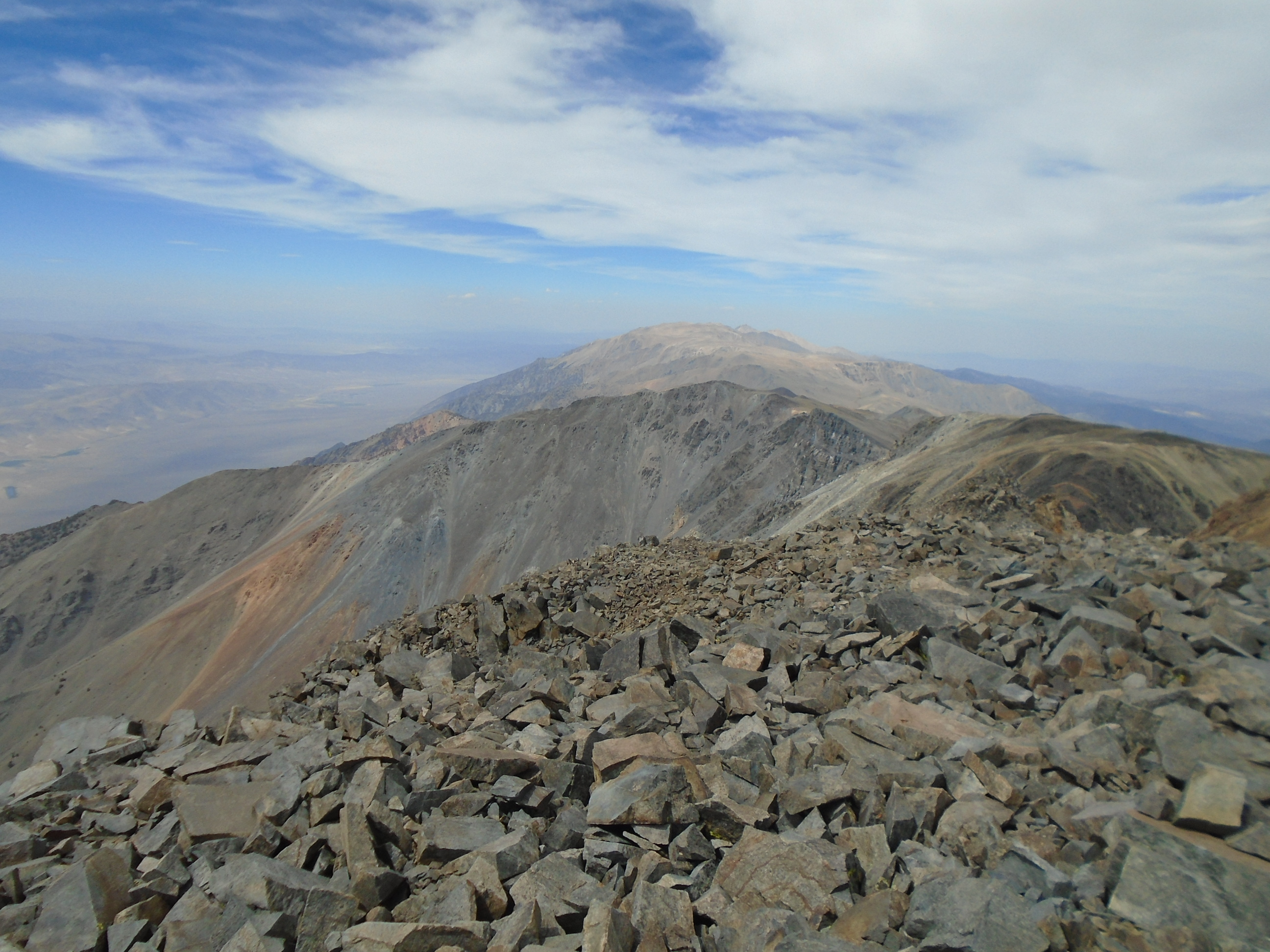 White Mountain Peak View to north, White Mountains